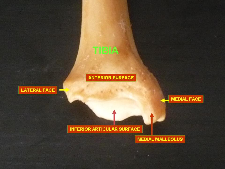 Tibia - inferior epiphysis (anterior view)